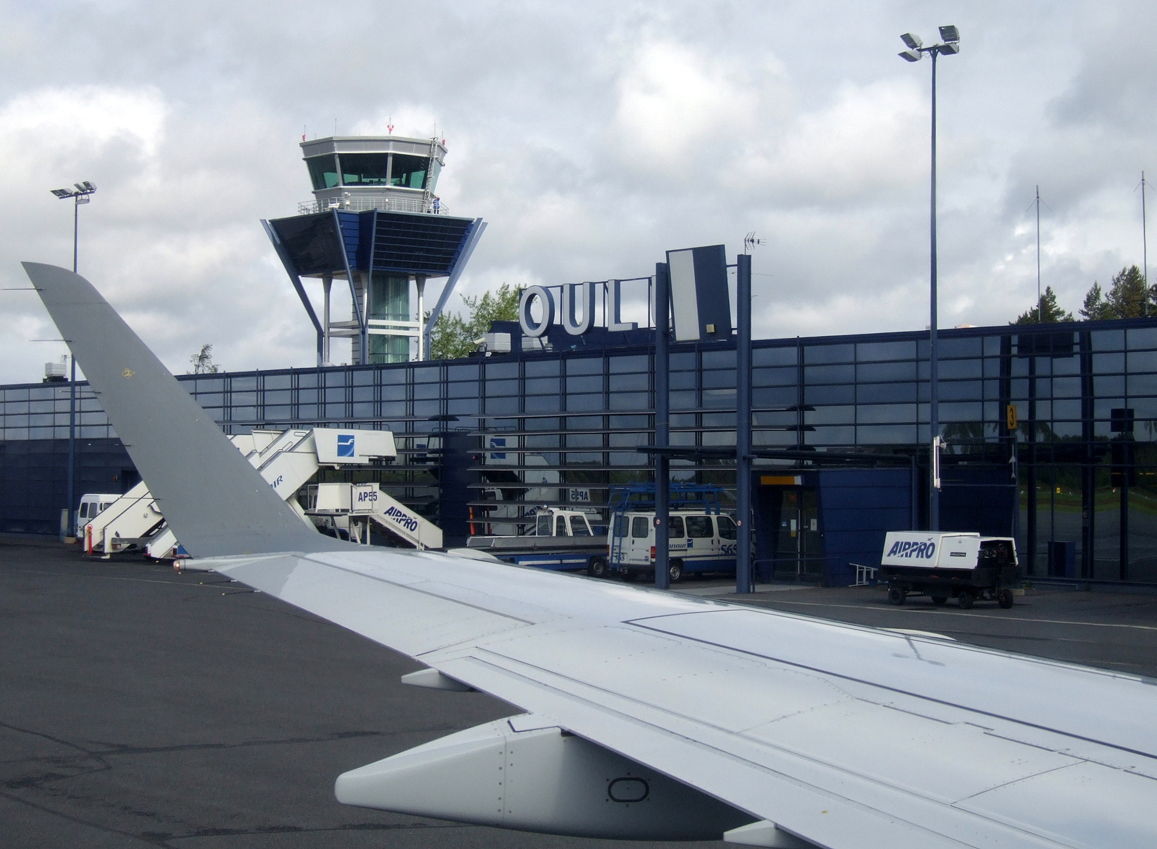 Oulu Airport Terminal seen from a plane.